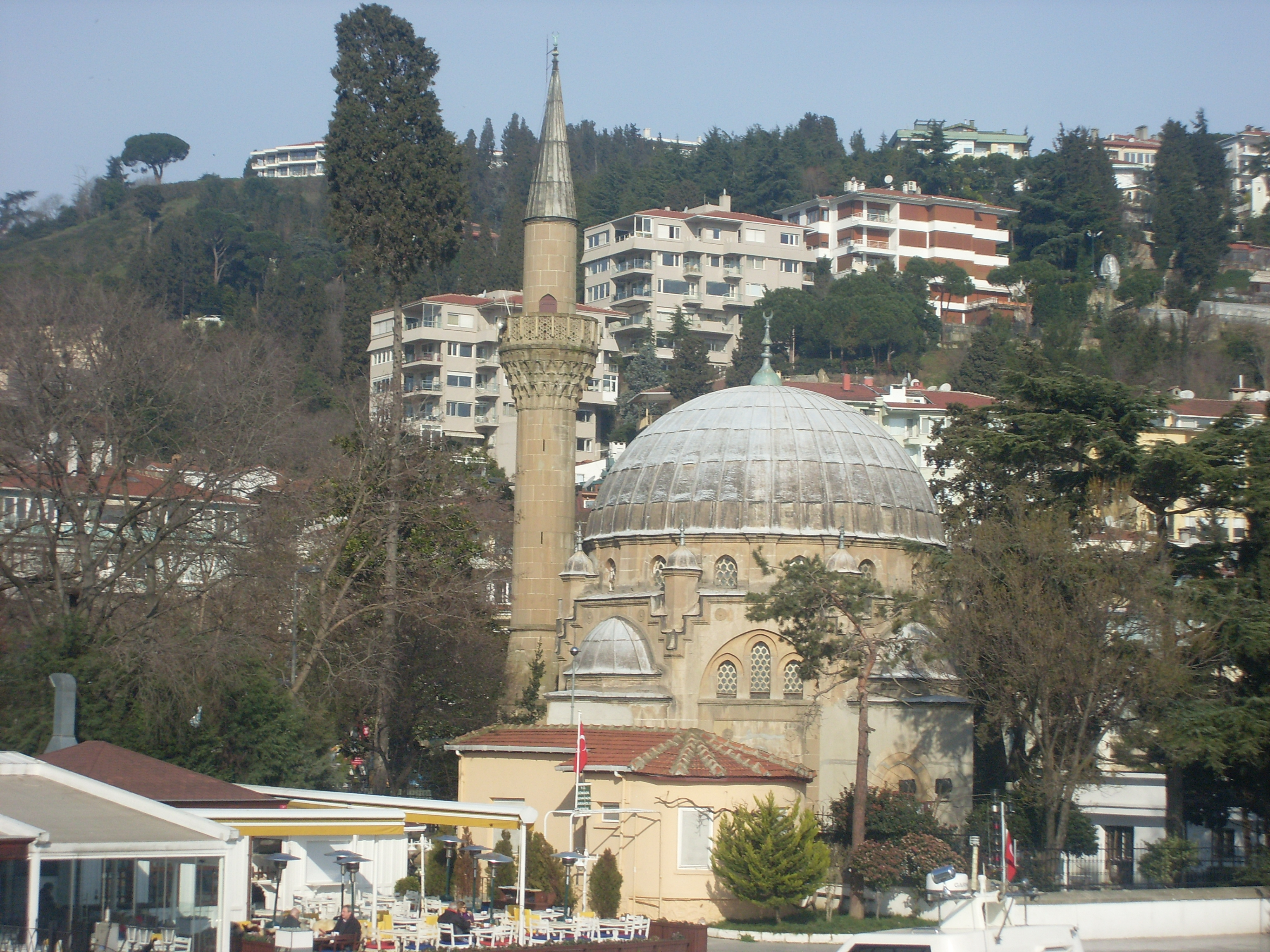 İstanbul - Bebek, Beşiktaş r7 - feb 2013